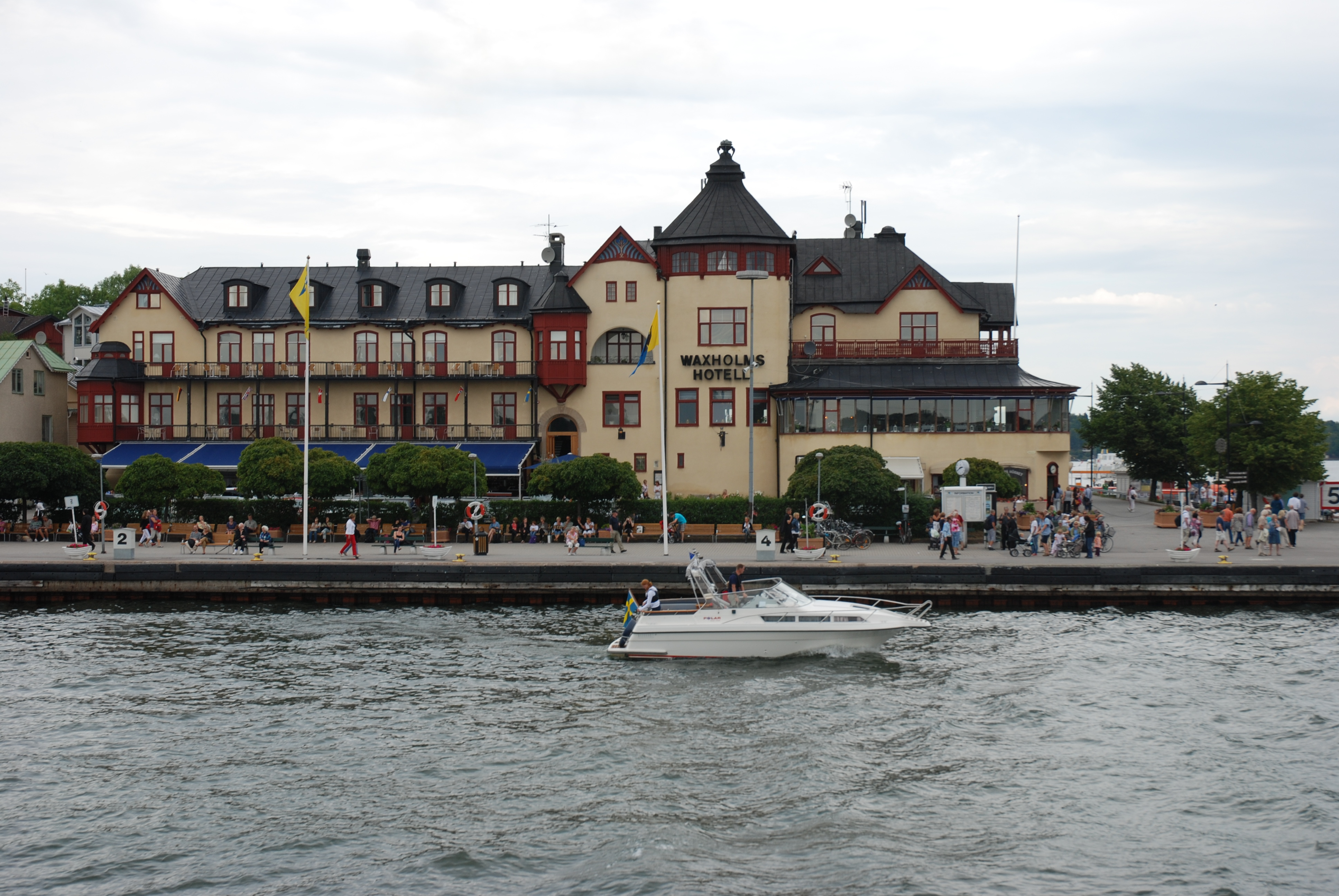 Vaxholms hotell, Vaxholm